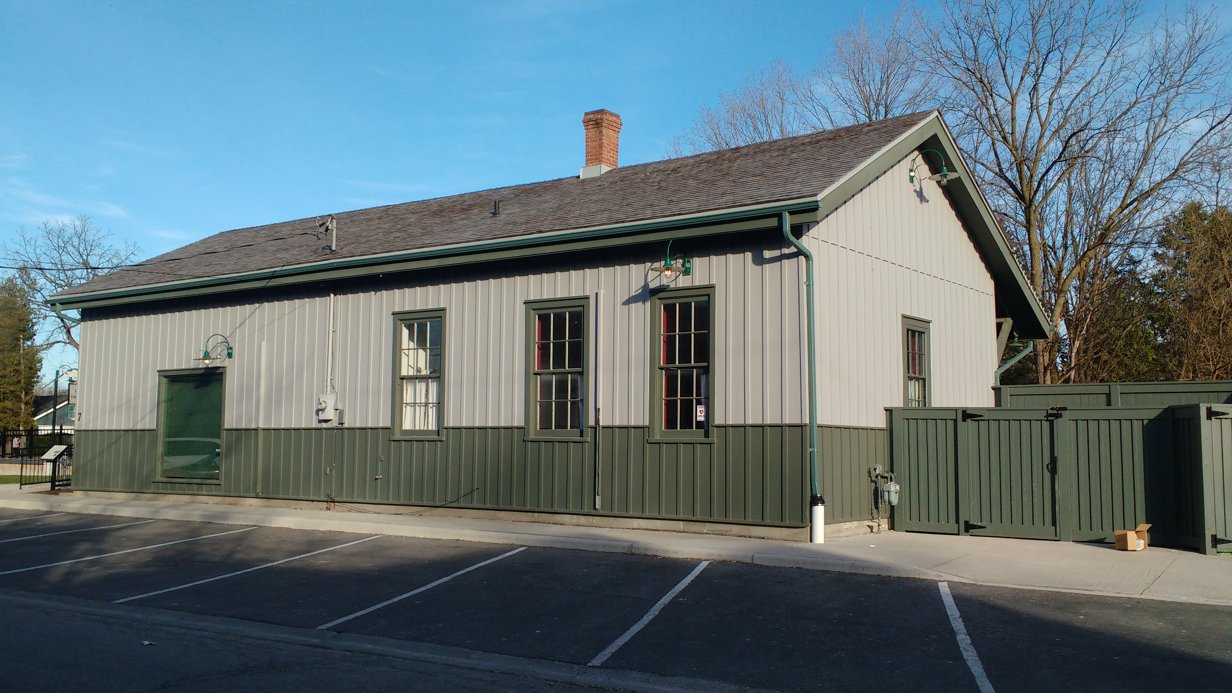 The Unionville CNR station seen from Station Street.